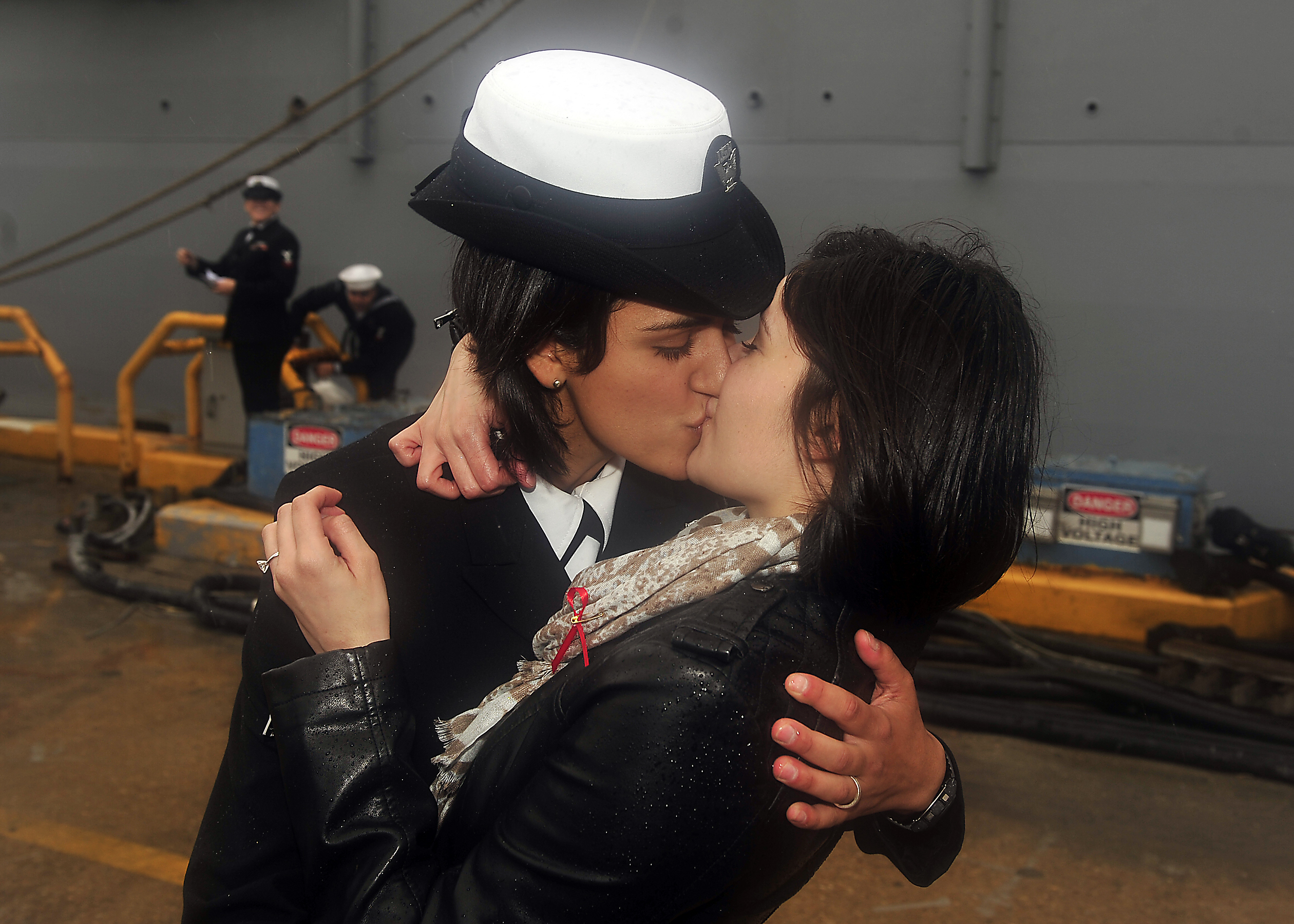 111221-N-JP983-008 VIRGINIA BEACH, Va. (Dec. 21, 2011) Fire Controlman 2nd Class Marissa Gaeta, left, assigned to the amphibious dock landing ship USS Oak Hill (LSD 51) kisses her fiancé, Fire Controlman 3rd Class Citlalic Snell, following the ship's return to homeport after a three-month deployment in the Caribbean. Oak Hill supported Southern Partnership Station 2012, an annual deployment of U.S naval assets in the U.S. Southern Command area of responsibility. (U.S. Navy photo by Mass Communication Specialist 2nd Class Joshua Mann/Released)